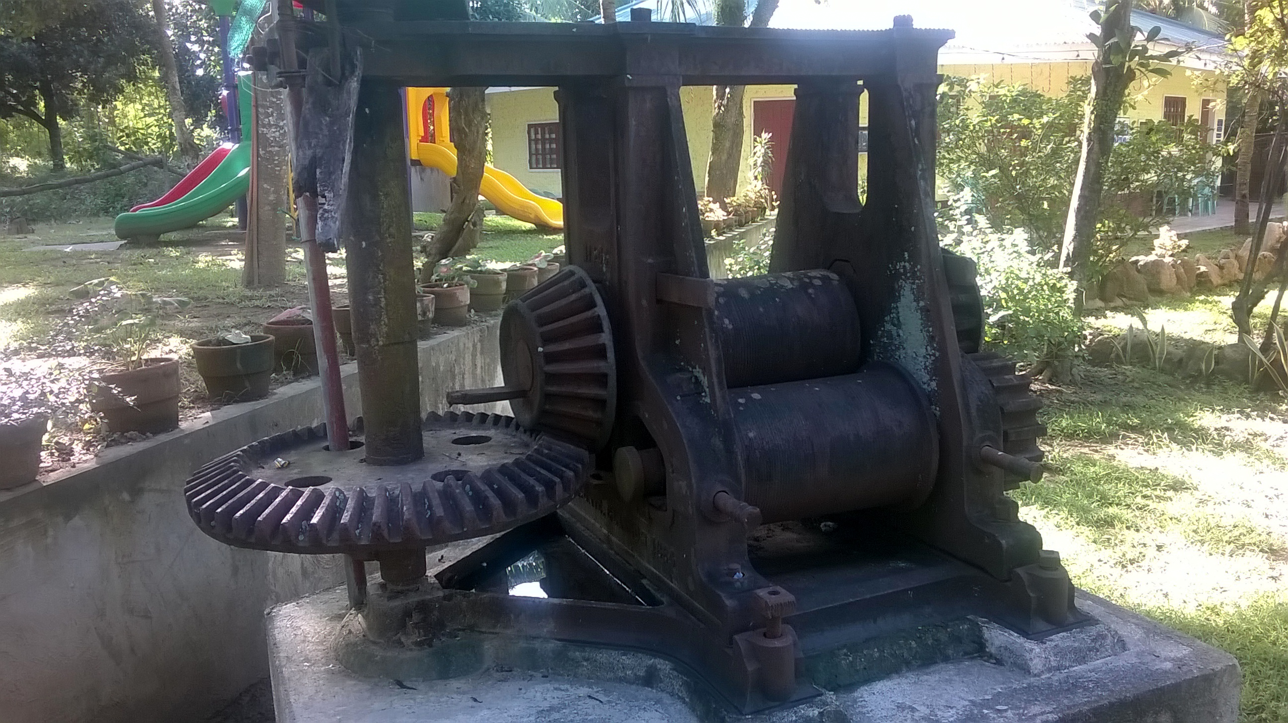 Trapiche now a relic on the Intosan campus.